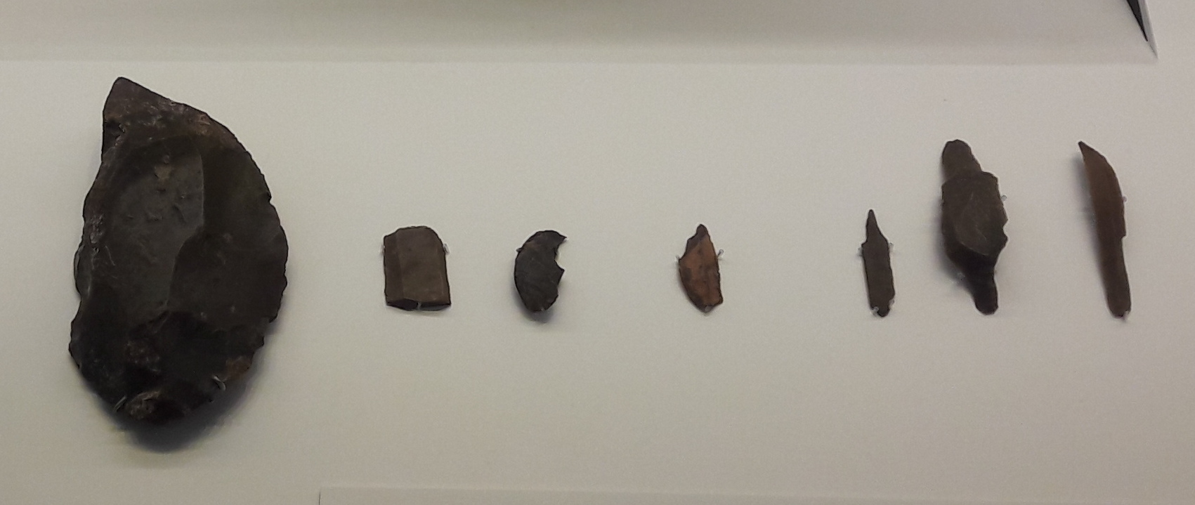 Large burin, end-scraper, burin, point, end-scraper, borer and blade. 15.000-11.000 BP 7.000-5.000 BP. From Cave del Hoyo de la Mina, Málaga. Museo de Málaga, Spain.